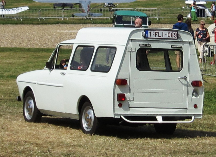 DAF 33 Kombi